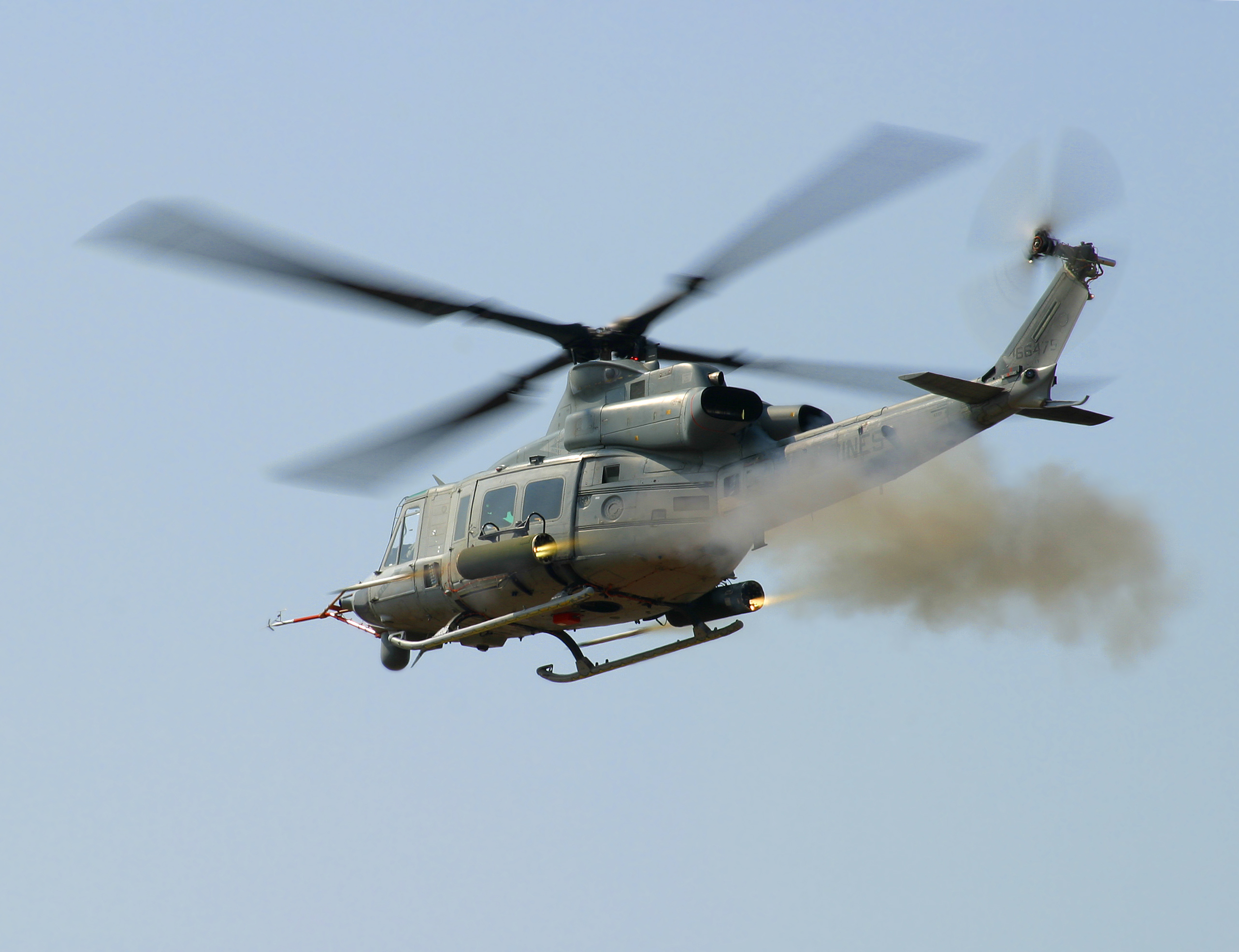 H-1 Upgrades Test Pilot, Capt. Mark Angersbach, launches a pair of 2.75 inch rockets from UH-1Y #1 at Fort A.P. Hill Va. during the final phase of Rocket Ingestion and Accuracy testing on the Y model. Maj. Eldon Metzger took the co-pilot's seat on this flight after having previously fired his portion of the 356 total rockets launched by the test team over a two-week span.